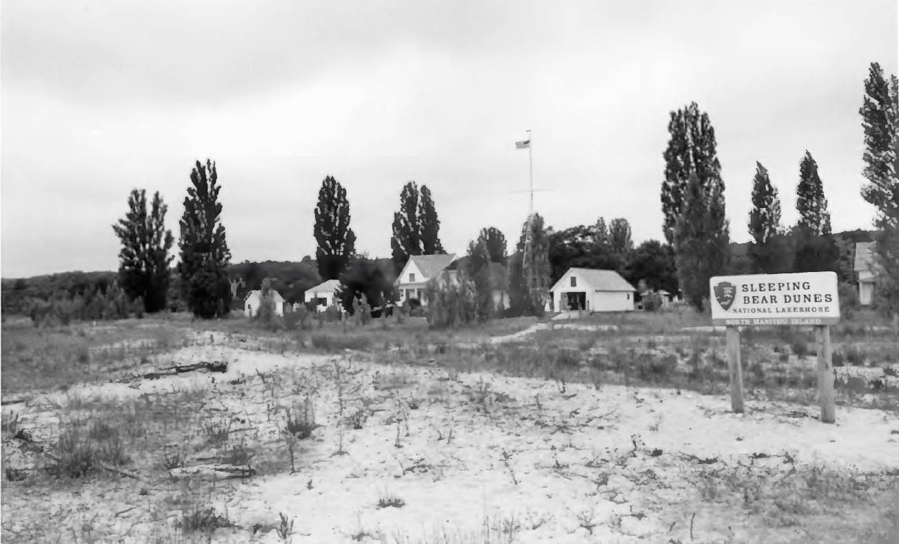 US Lifesaving Station, North Manitou Island: Panorama of district NRHP#98001191